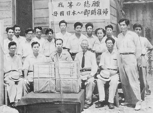 Signature-obtaining campaign for return to Japan